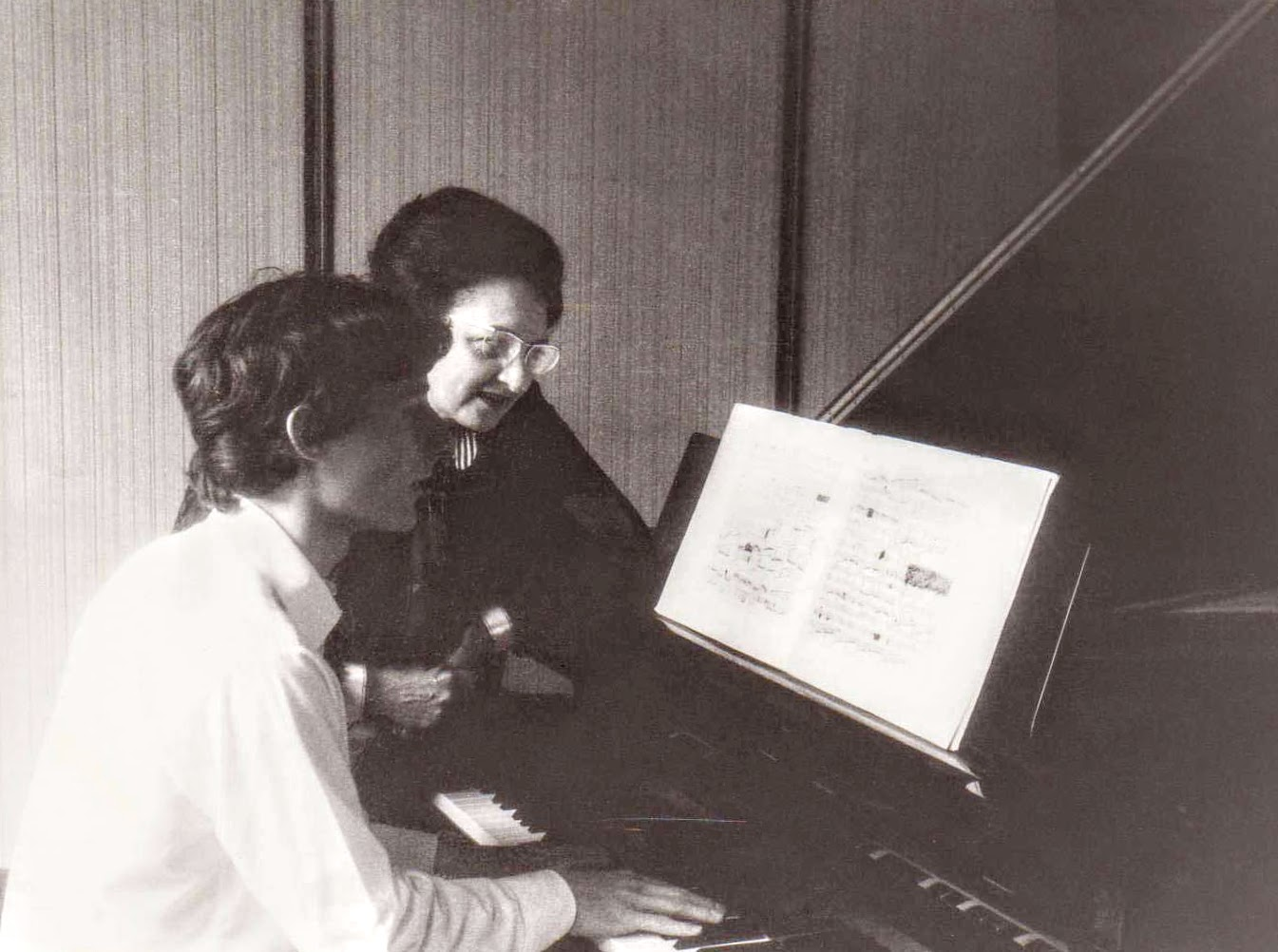 Yvonne Loriod teaching a course at CNSM in Paris, June 1982 (The student is François Weigel)